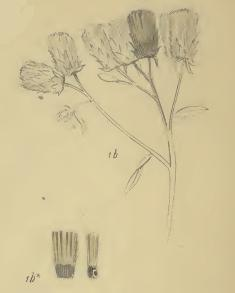 Stainton’s Natural History of the Tineina (1855–1873): Apodia bifractella a sprig of Inula conyza (1b), and seeds fastened together and bored by the larva (1b*)